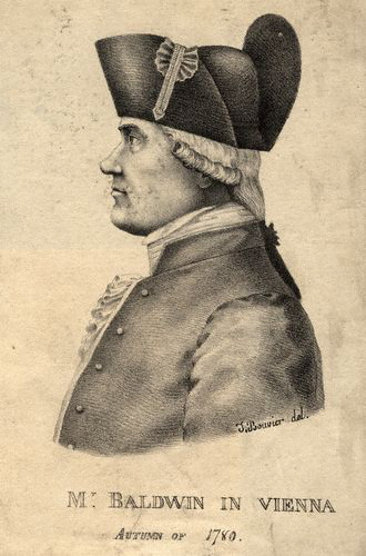 Lithograph of English diplomat and writer George Baldwin (1744–1826). The original caption reads: "Mr Baldwin in Vienna. Autumn of 1780."